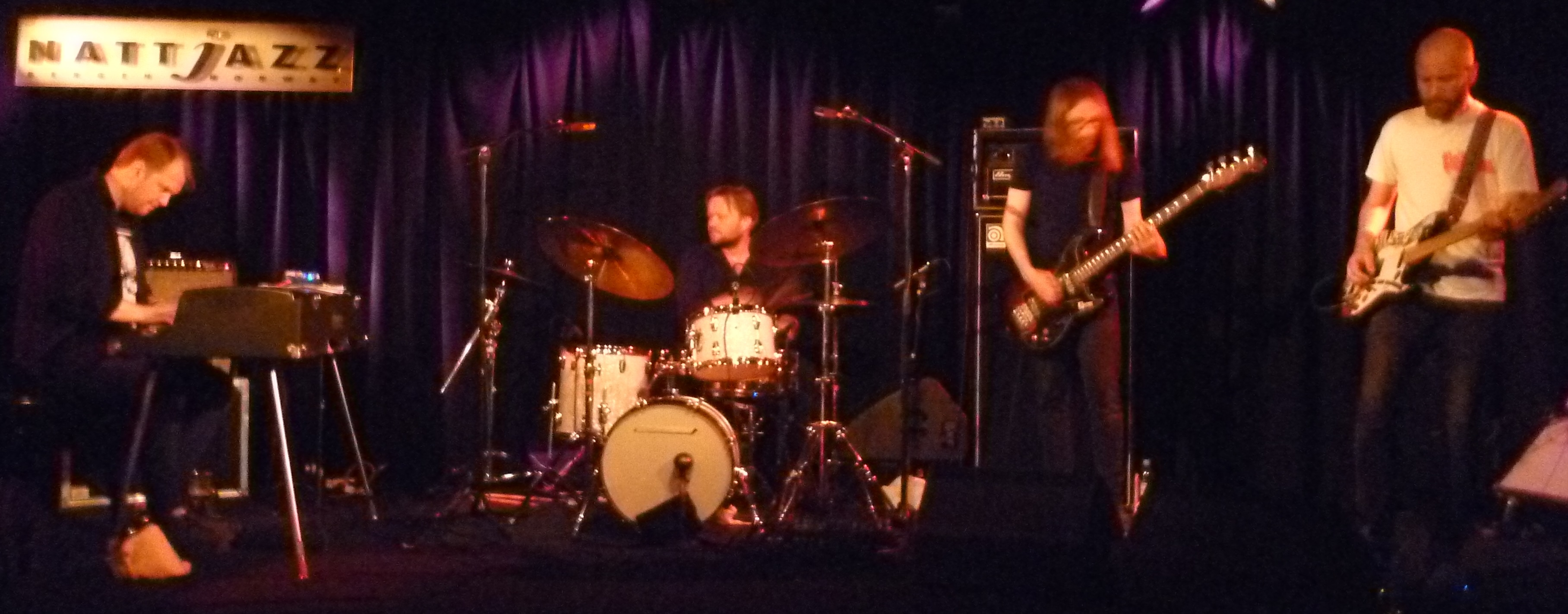 Red Kite at Nattjazz 2016, Sardinen, USF Verftet, Bergen, Norway.